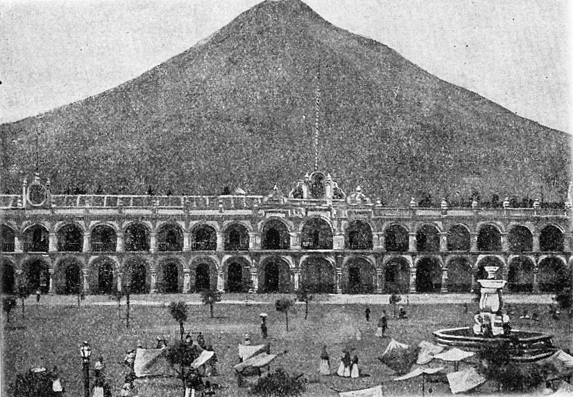 General Captaincy of Guatemala Palace. Taken from Geography of Central America By Dario Gonzalez published in 1896.